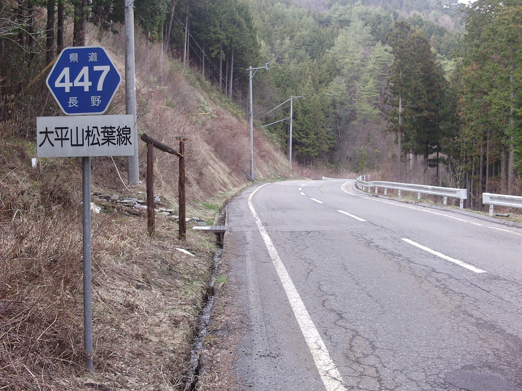 The Nagano Prefectural Road Route 447 in Odairayama, Niino, Anan Town